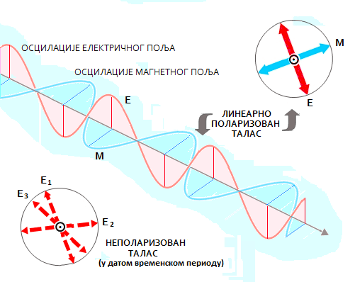 ПОЛАРИЗАЦИЈА СВЕТЛОСТИ